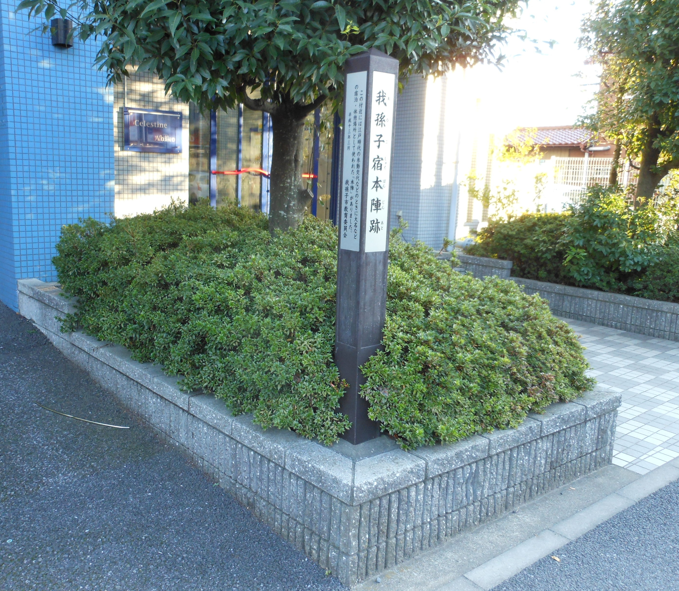 This is the site of Abiko-shuku Honjin, which is located in Abiko, Chiba, Japan.